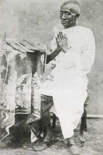 Photograph of King Mongkut in the white robes of a lay renunciant, observing the precepts.